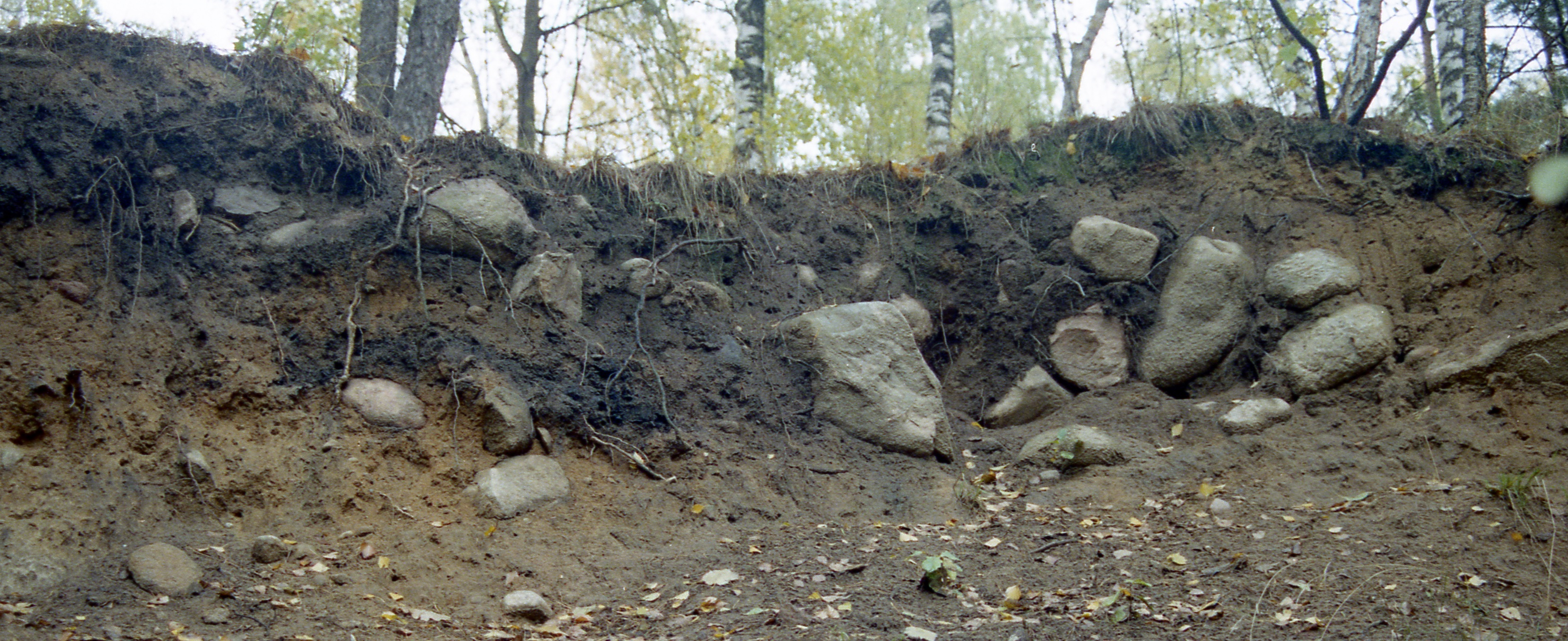 Senkai hillfort, Kretinga district, Lithuania